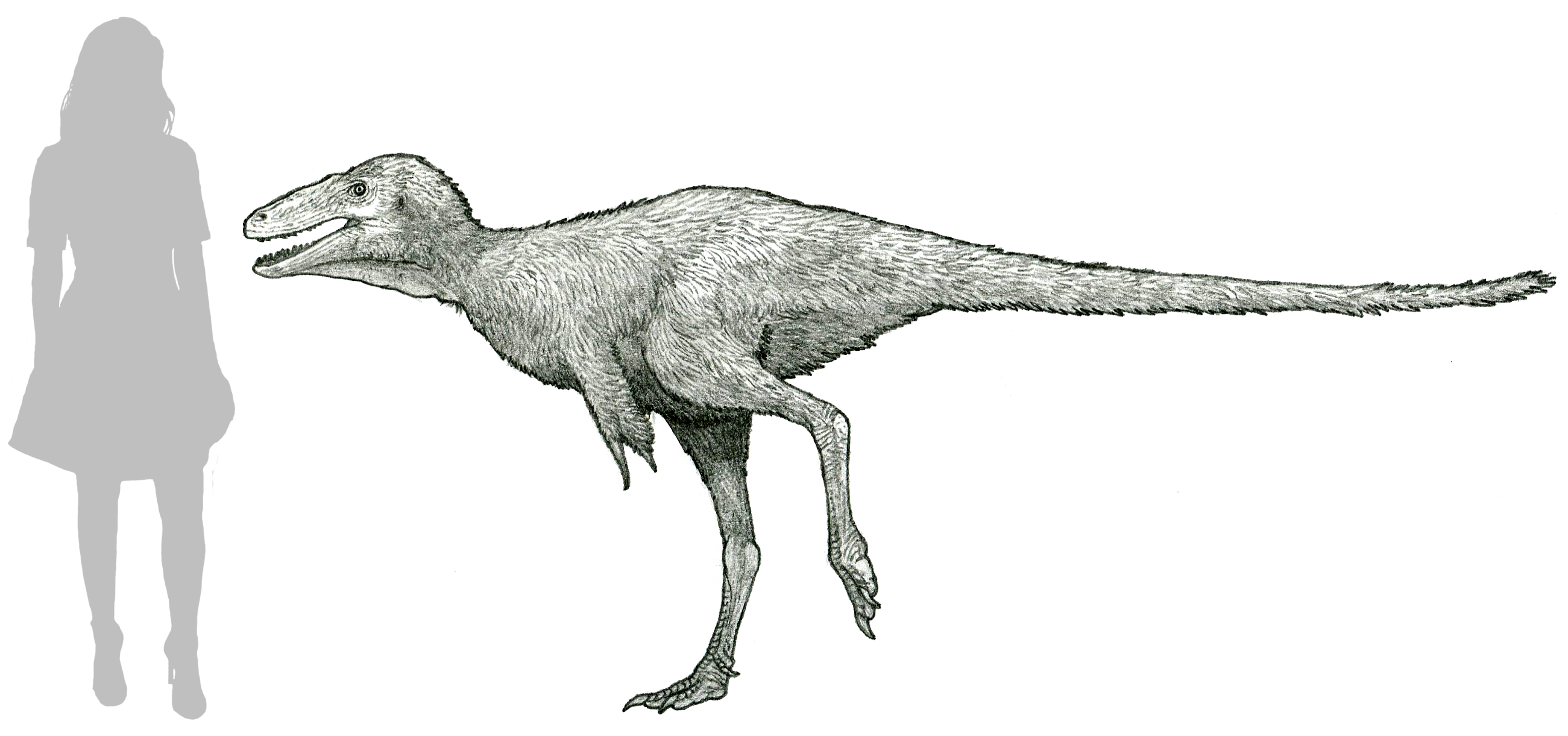 Life reconstruction of Moros intrepidus by Tom Parker (2019)